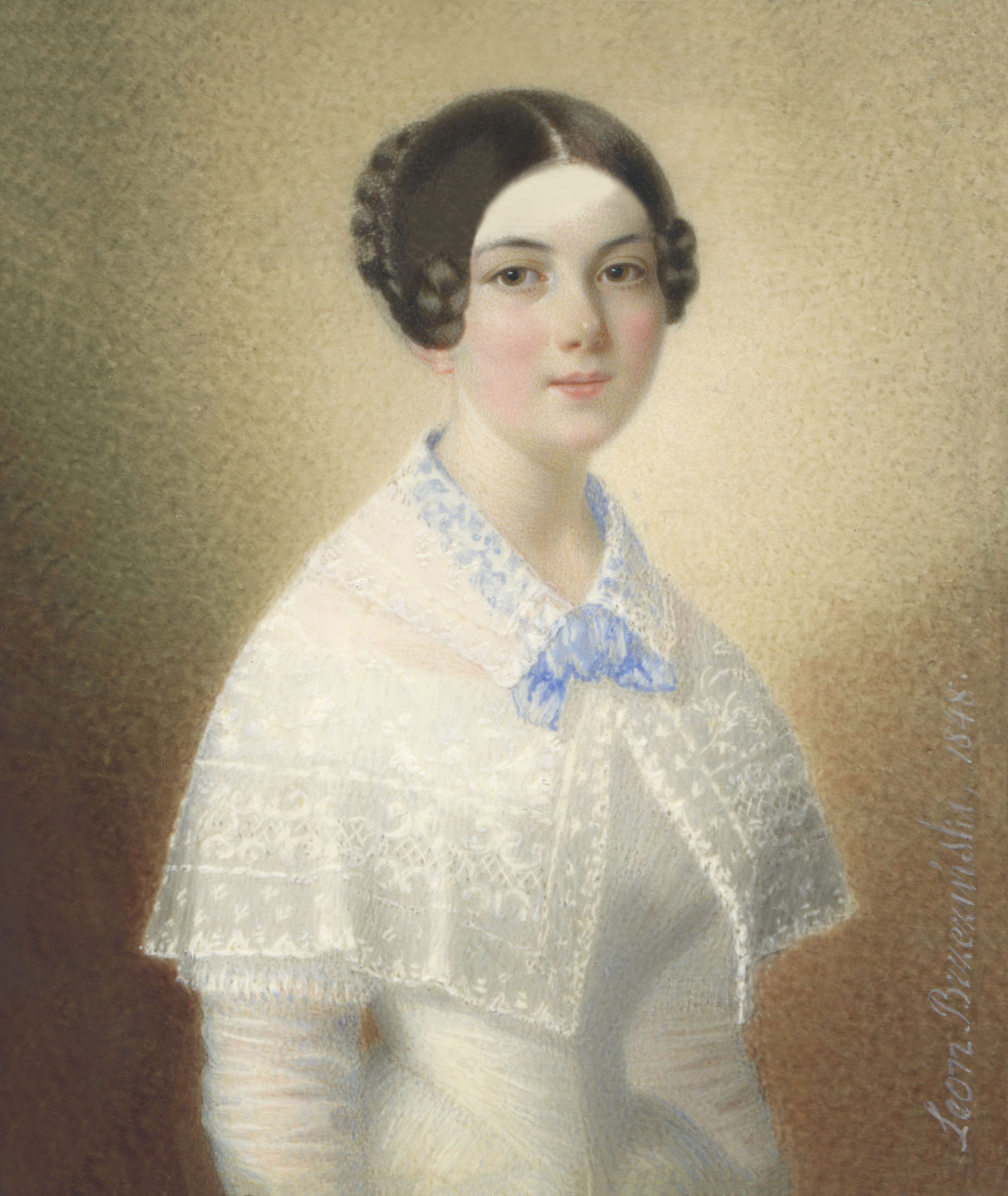 Portrait of Countess Emma Załuska of Iwonicz in (1831-1912) at the age of 17, a year before she married Teofil Ostaszewski.